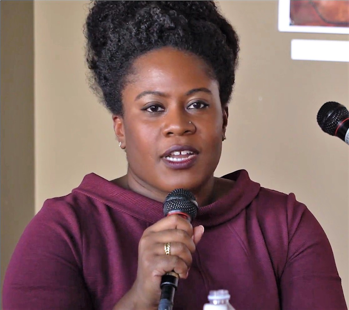 Racism and Health Inequities - Health Equity Learning Series On Nov. 10, 2016, Rachel Hardeman, PhD, MPH of the University of Minnesota School of Public Health and Partners in Equity and Inclusion (Minneapolis, Minn.) presented as part of The Colorado Trust’s Health Equity Learning Series. Dr. Hardeman’s presentation, “Racism and Health Inequities,” explored the historical context of structural racism, its role in creating health inequities in the United States, and the importance of naming and recognizing racism in order to mitigate its impact on society and health.